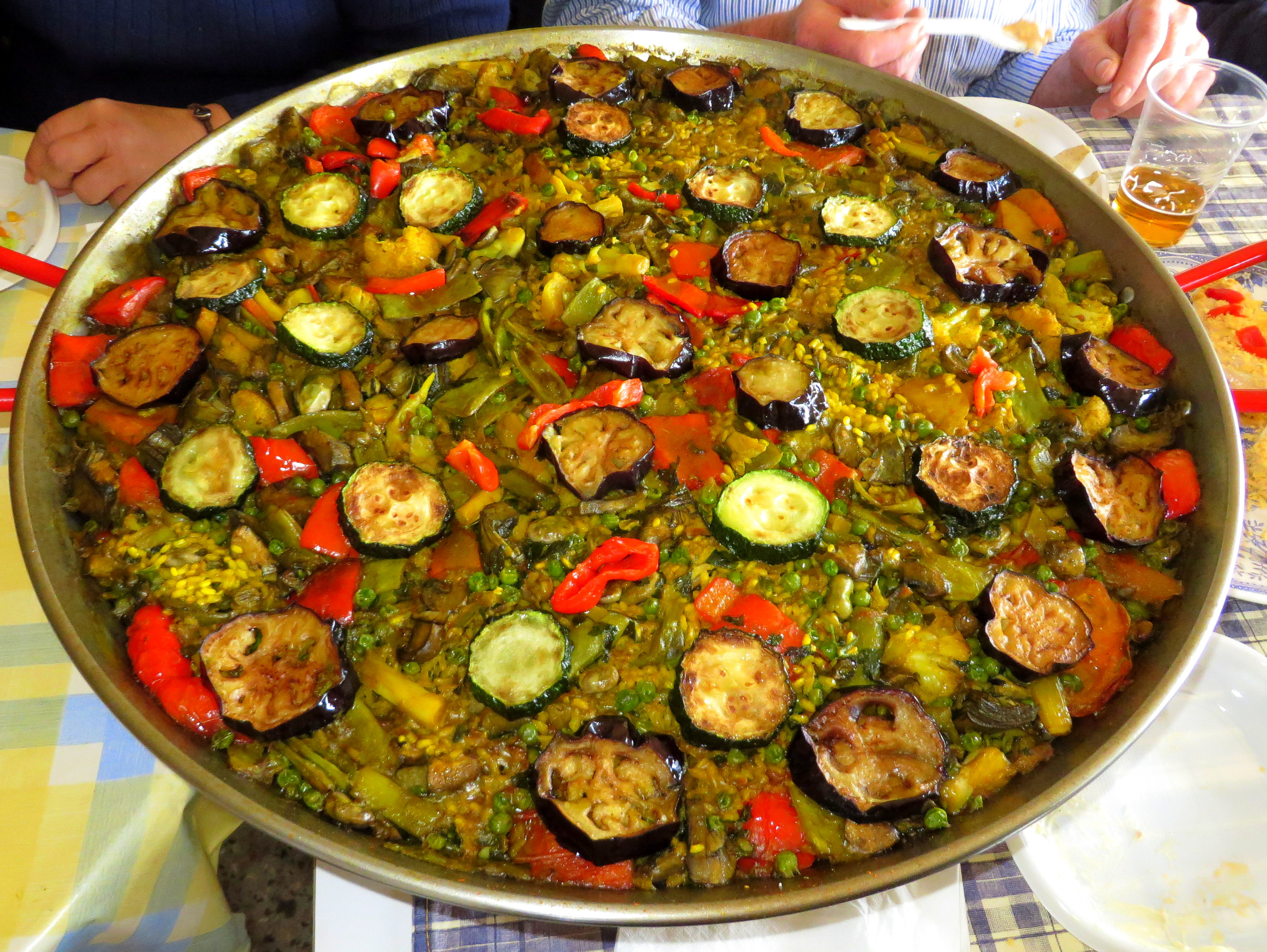 Paella de verduras o arroz viudo